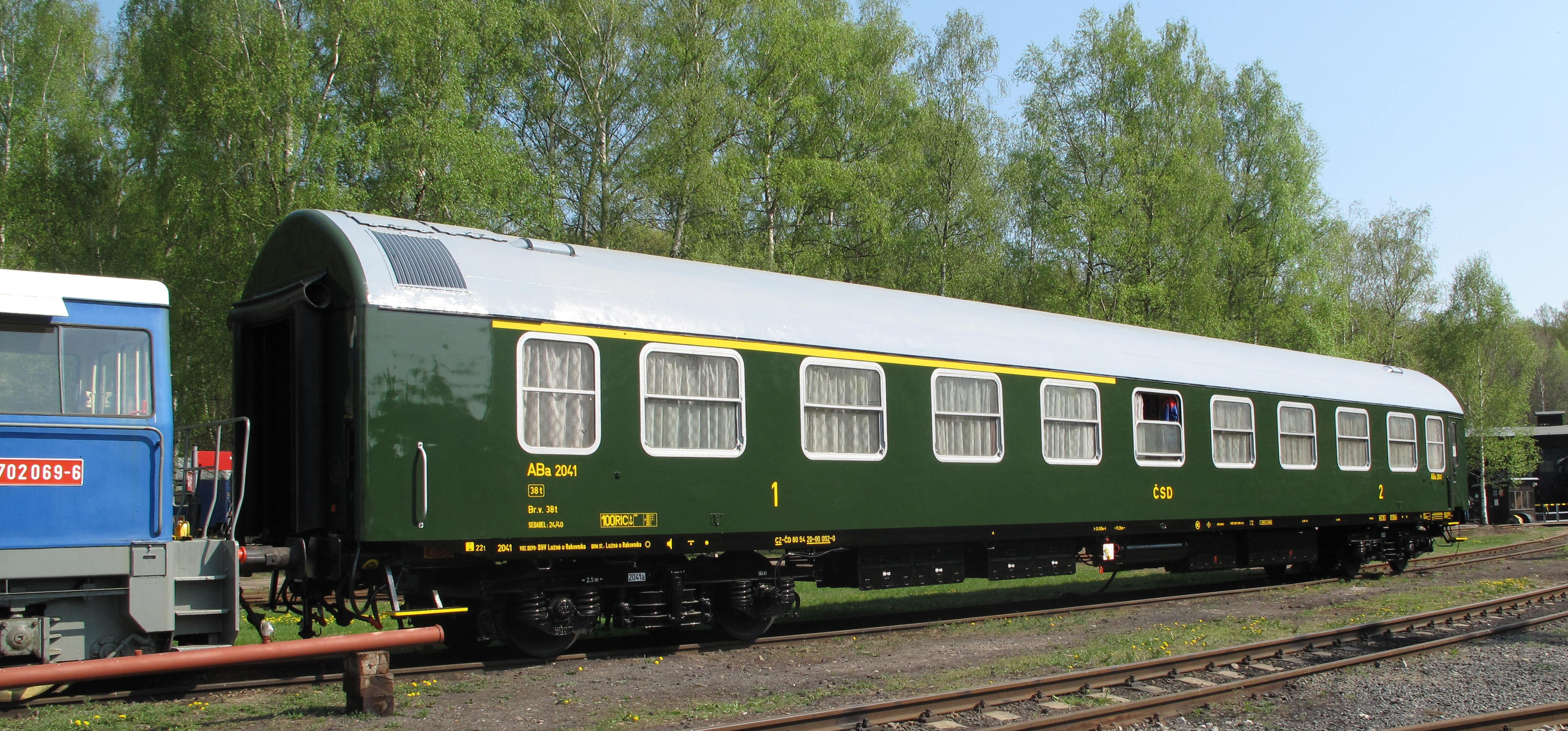 Former ČSD AB UIC-Y coach at Railway Museum of Lužná u Rakovníka